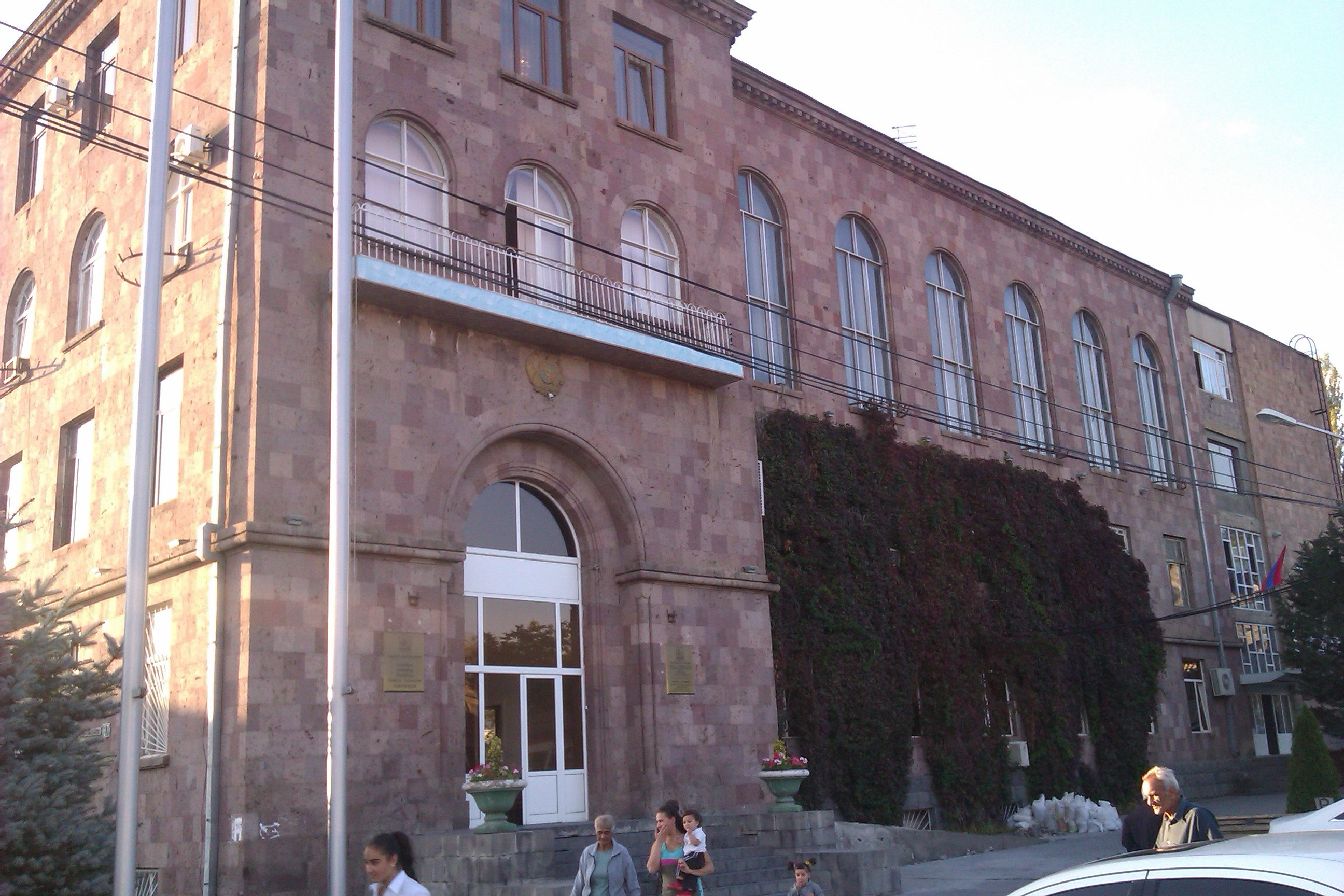 Erebuni district administrative building, Yerevan, Armenia.